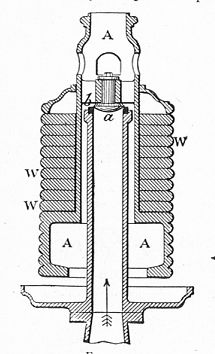 Fig. 172 Dead-weight safety valve as used on stationary boilers.